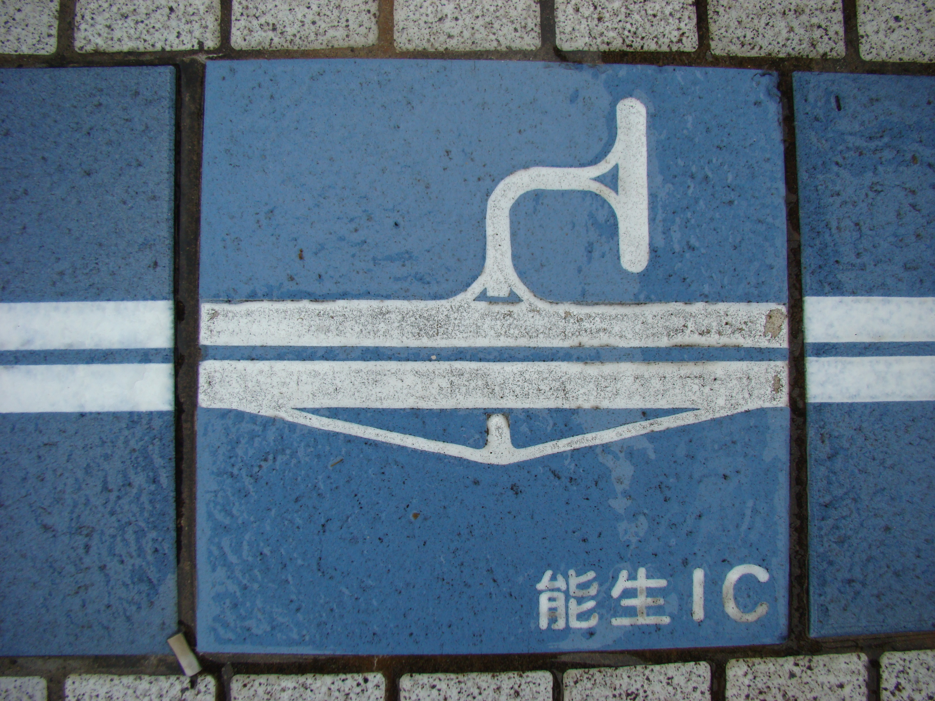 The tile which designed a shape of the Nou Interchange（Hokuriku Expressway）（There is this tile in Hokuriku Expressway Nadachi-Tanihama Service Area.）. Place - Chayagahara,Joetsu City,Niigata Prefecture,Japan Date - August 9, 2009 Format - JPEG, 3264x2448pixel, 24bit colors. Photographer - NALA Wiki (talk)